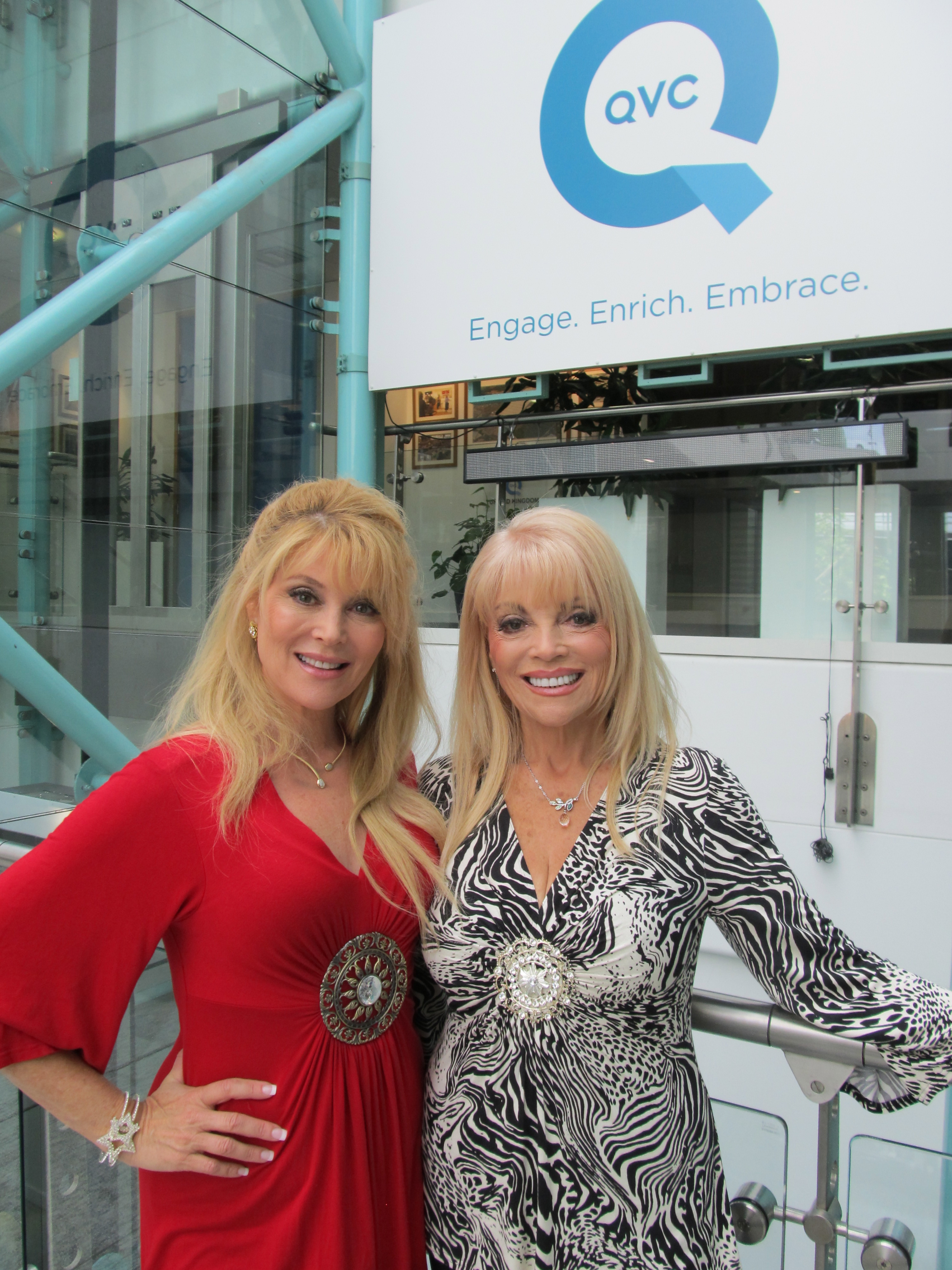 Audrey and Ruth Landers at the Landers Star Collection Fashion Launch on QVC UK.